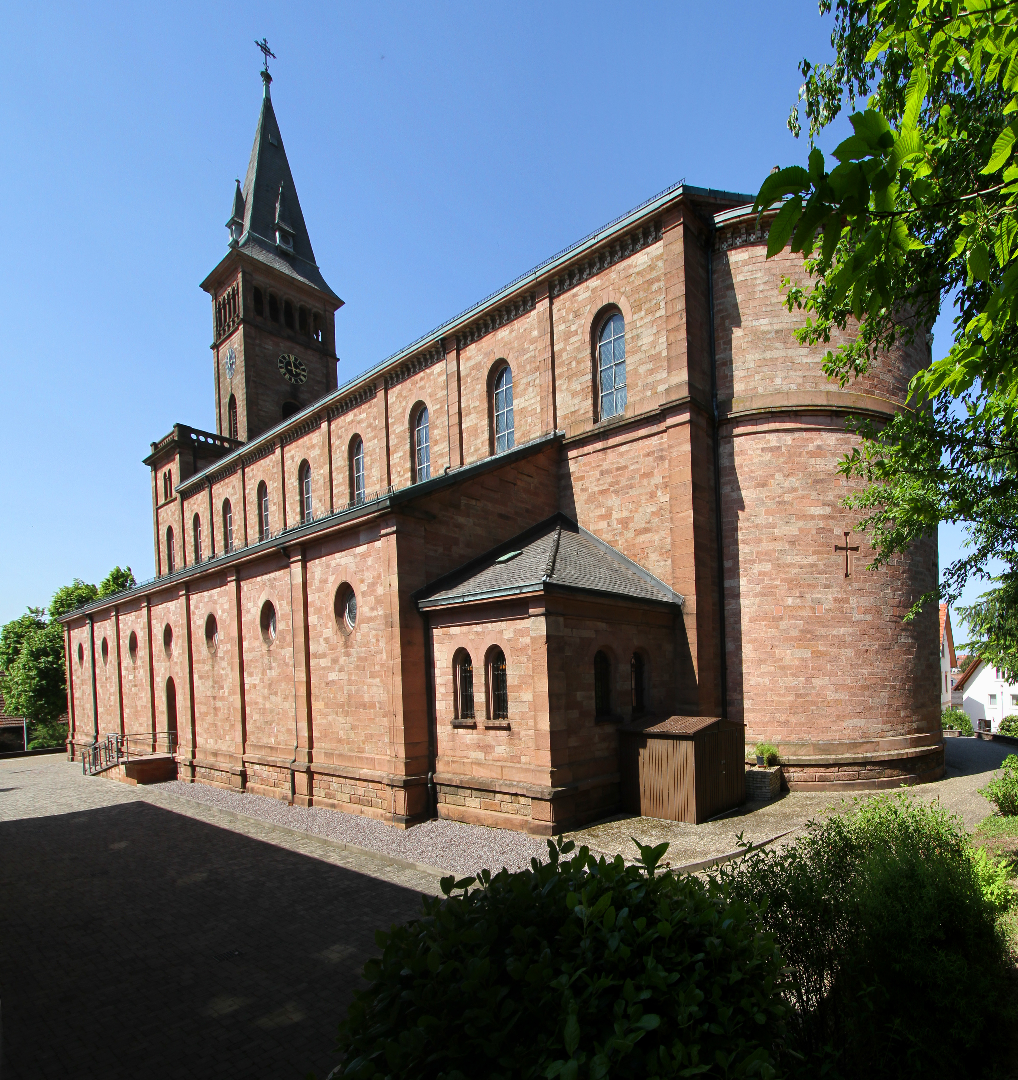 Church of St. Leonhard in Lauf (Ortenau).